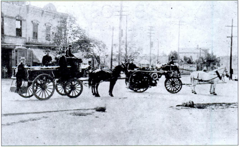 Engine and truck 160 of the Long Island City Fire Department.